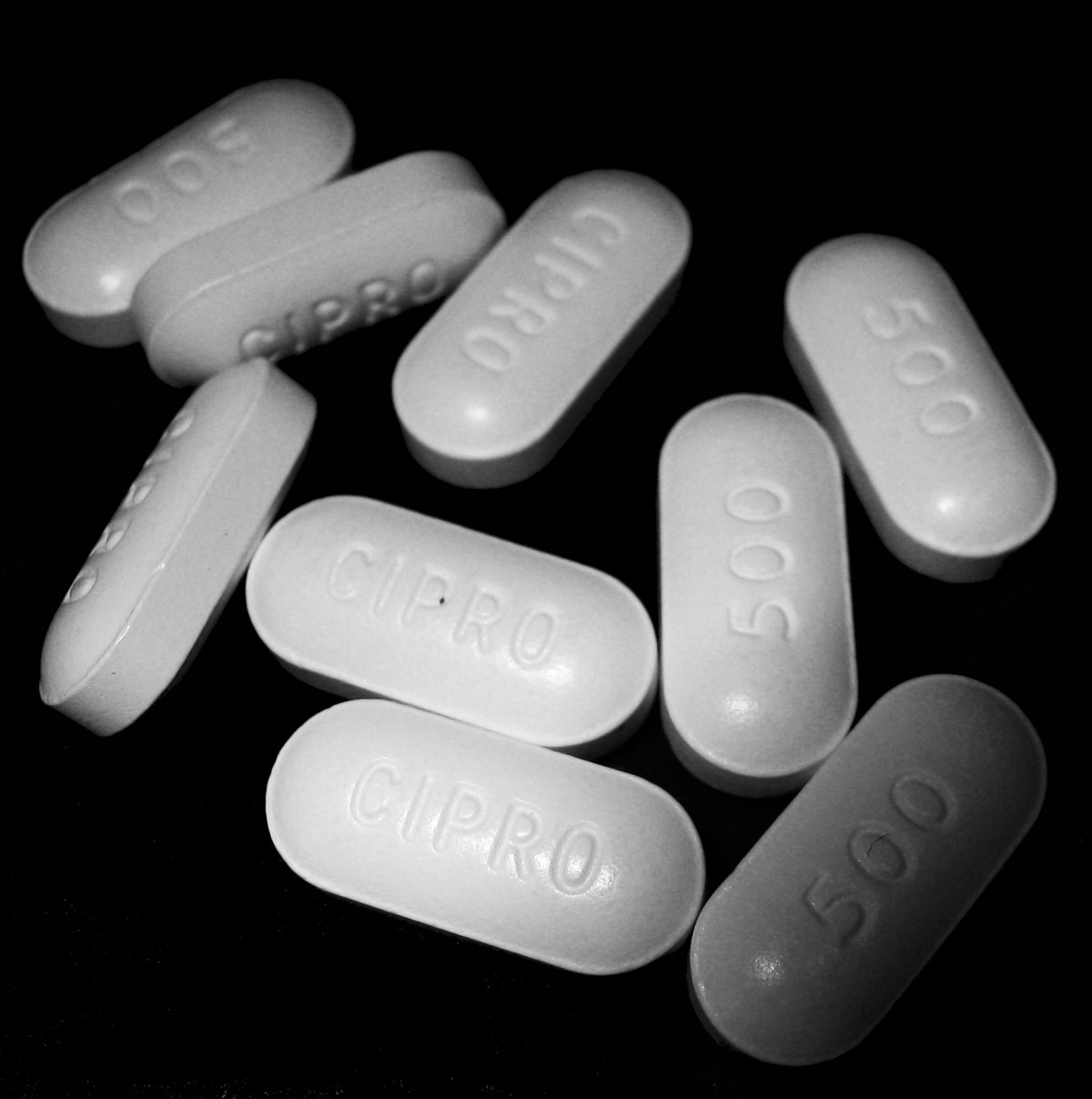 Eight 500 mg ciprofloxacin tablets, manufactured by Bayer, against a black background.